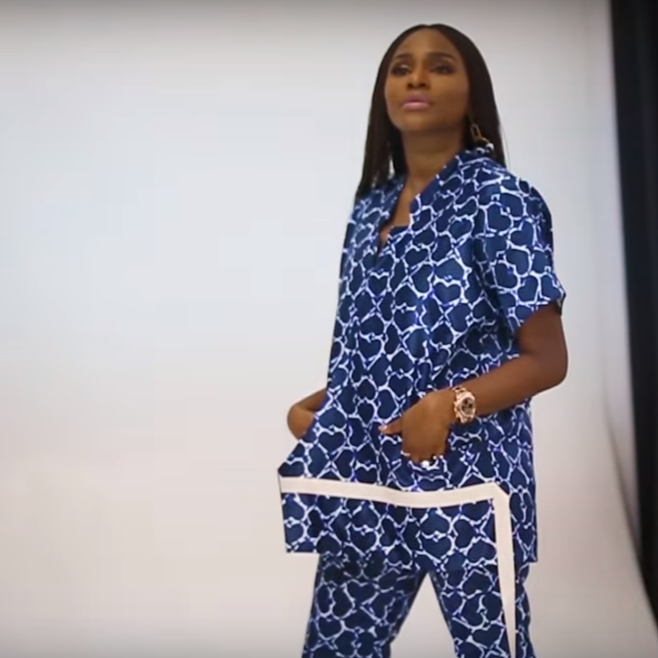 Lisa Folawiyo Nigerian Fashion Designer shoot - Guardian Life's cover shoot. March 2017